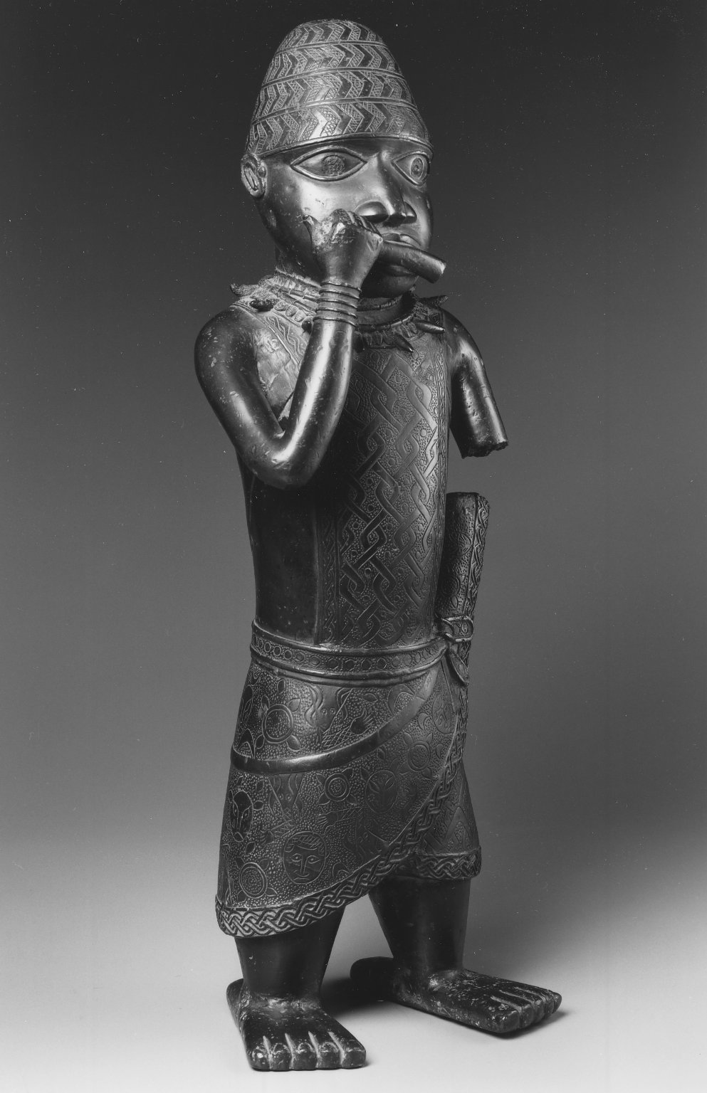 Blowing a horn or flute with his right hand, his left arm is truncated. He wears a netted cap with chevron design decorated with a feather. Around his neck are two collars: one of coral, the other of cowrie shells and teeth. He wears a kind of vest decorated with an interlocking design and supported by a strap around his neck. This is attached at the waist to a skirt which is drawn up at the side in a point. A belt is tied in a knot around the waist, and a lower belt with tassels connecting the skirt at the back. The over-skirt has a pattern of human faces, leopard faces, arms, half-moons, and other leaf forms. He wears five bracelets on his right hand. There is an undershirt exposed on the left side which has an interlocking design. The lower border of the outfit has a guilloche pattern. Condition: Generally good although the left arm is truncated just below the shoulder and the horn or flute is broken off at both ends. The tip of the feather on the cap is broken off, too. Judging from the surface which is remarkable in that it is free from corrosion products or patination, it has been kept mostly or entirely in protected places.